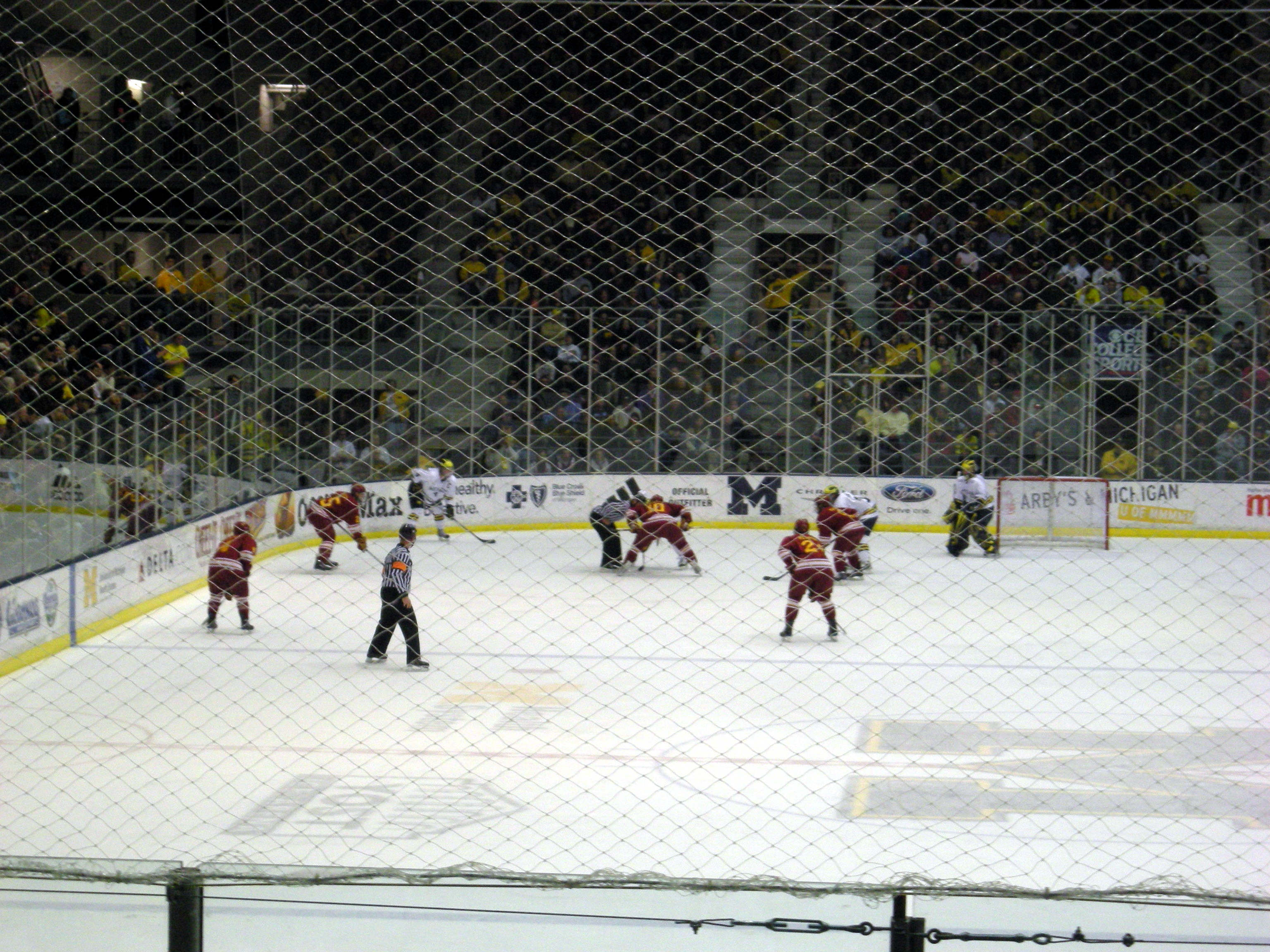 Ferris State on a 5-on-3 power play during the Ferris State Bulldogs vs. Michigan Wolverines men's ice hockey game at Yost Ice Arena in Ann Arbor, Michigan (United States). Michigan won 2–0.